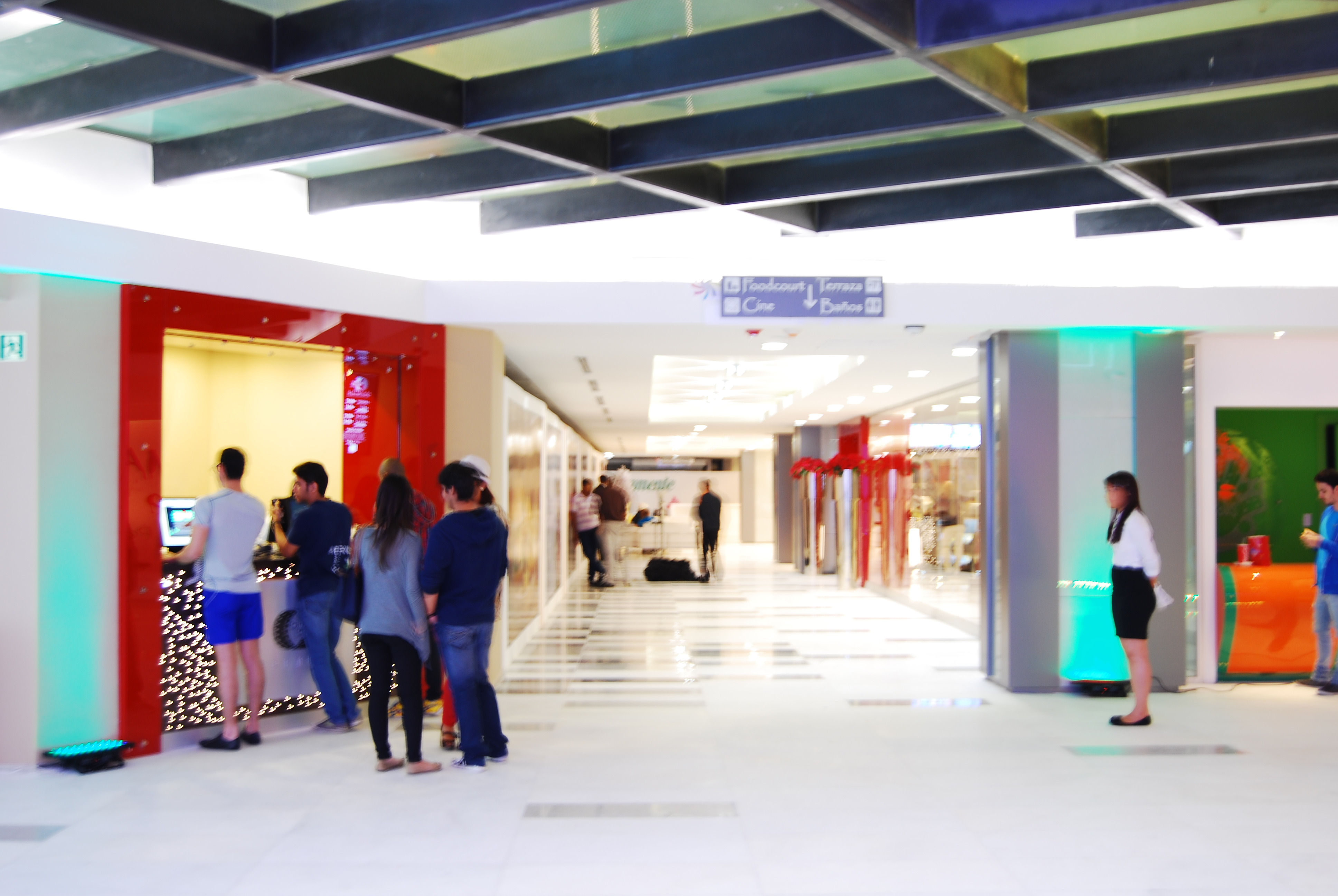 Silver Sun Gallery mall and hotel of Santo Domingo, Dominican Republic 2012